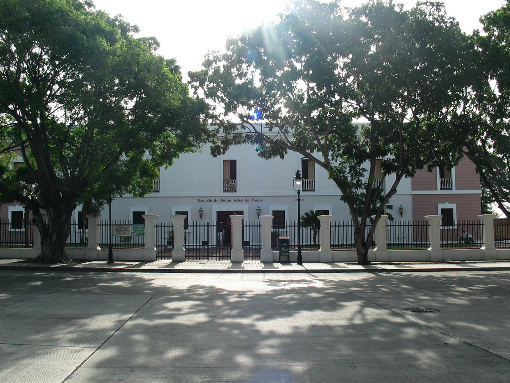 Front facade of the Escuela de Bellas Artes de Ponce (Ponce School of Fine Arts) — in Barrio Quinto of Ponce, Puerto Rico. Formerly the Antiguo Cuartel Militar Español de Ponce, and on the National Register of Historic Places in Ponce, Puerto Rico.